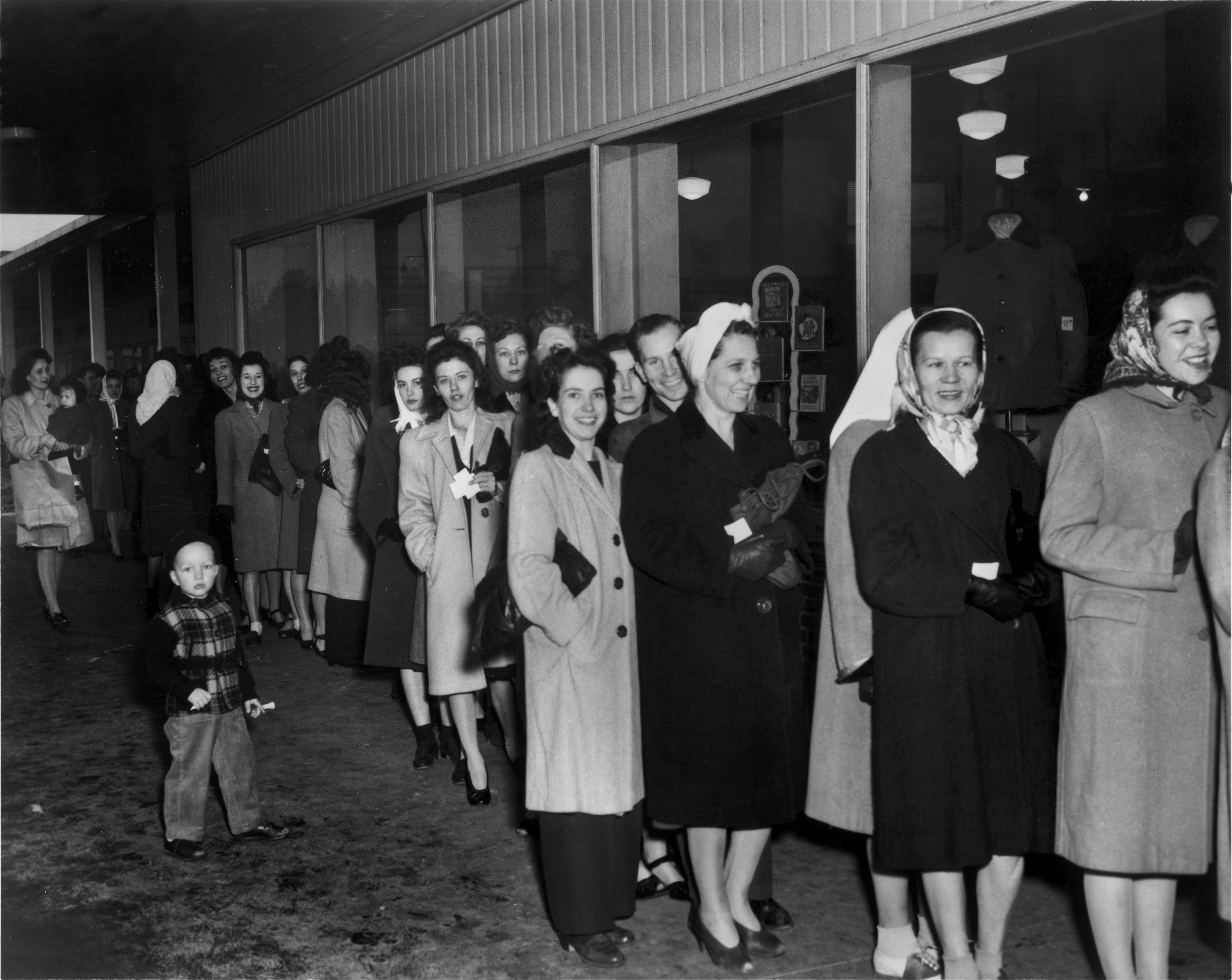 1340-1 DOE photo by Ed Westcott 1/4/46 Oak Ridge Tennessee standing in line for nylon stockings at millers dept. store